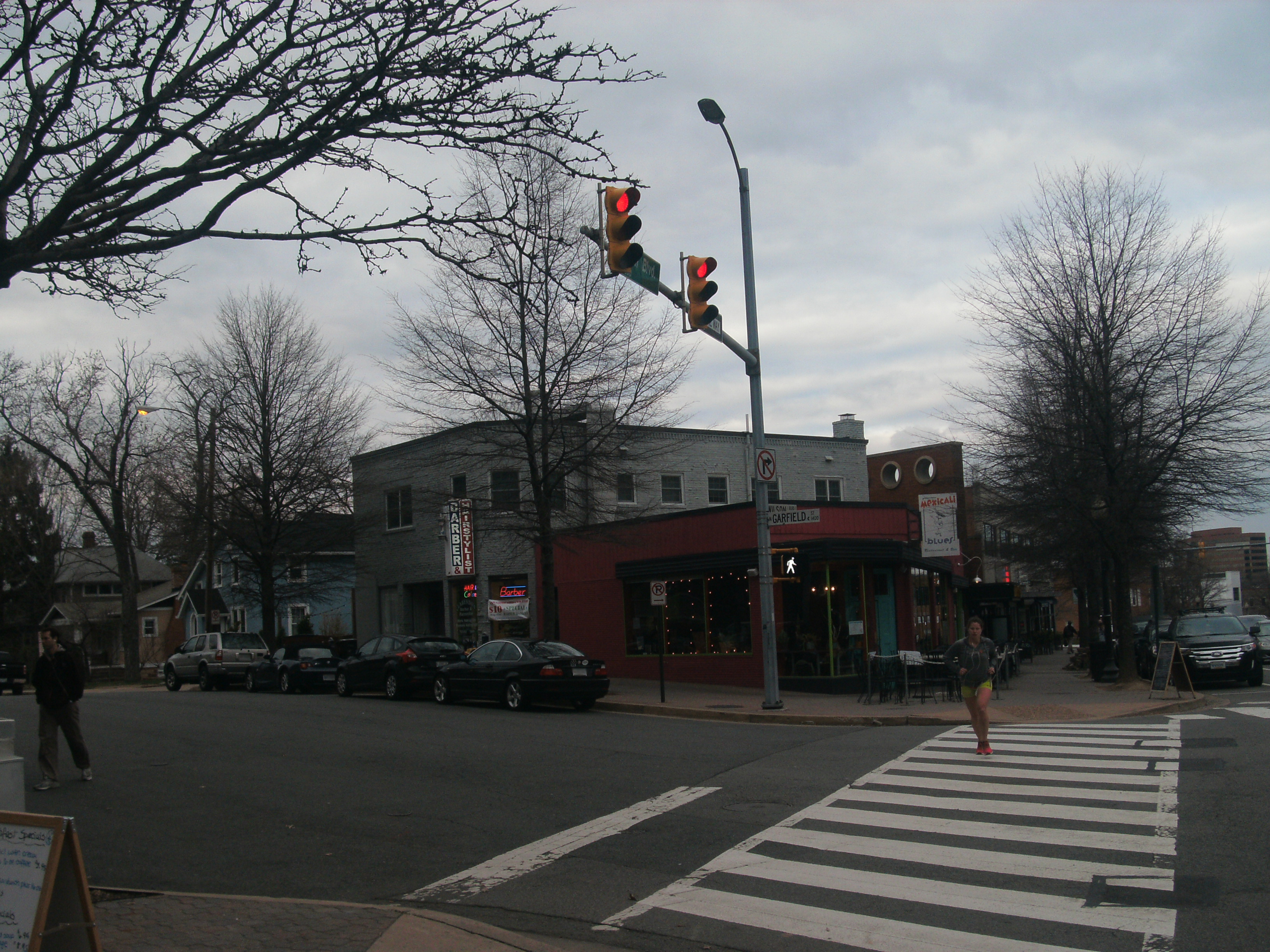 GEDSC DIGITAL CAMERA